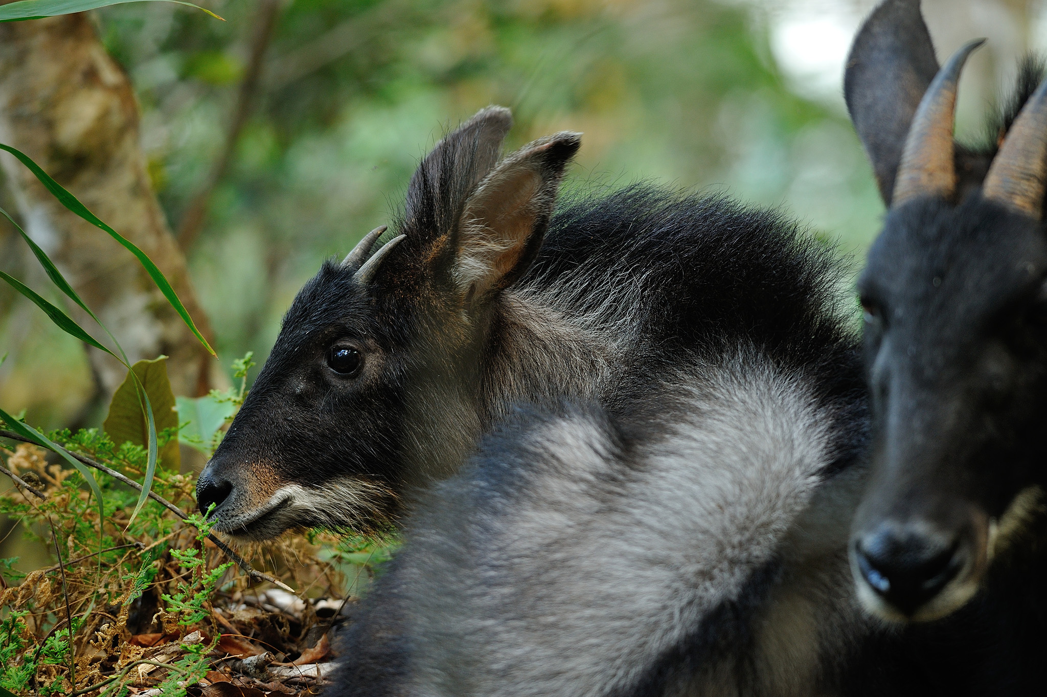 Indochinese Serow, Capricornis maritimus (= Capricornis milneedwardsii maritimus) fawn in Khao Yai national park, Thailand.